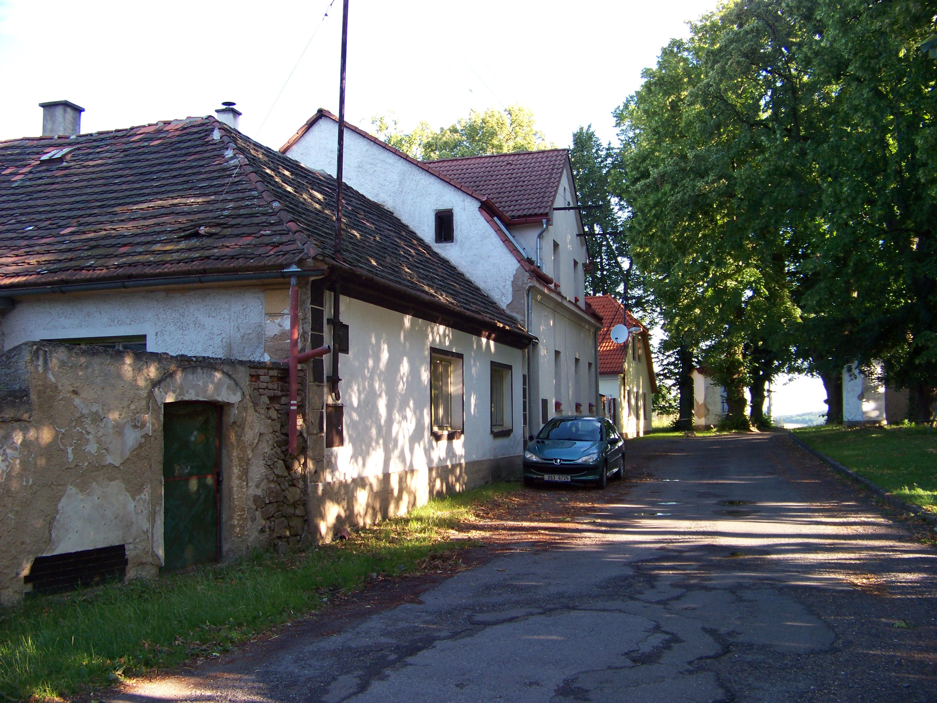 Milín-Slivice, Příbram District, Central Bohemian Region, the Czech Republic. Houses No. 41, 85 and 84. - OpenStreetMap(Info)